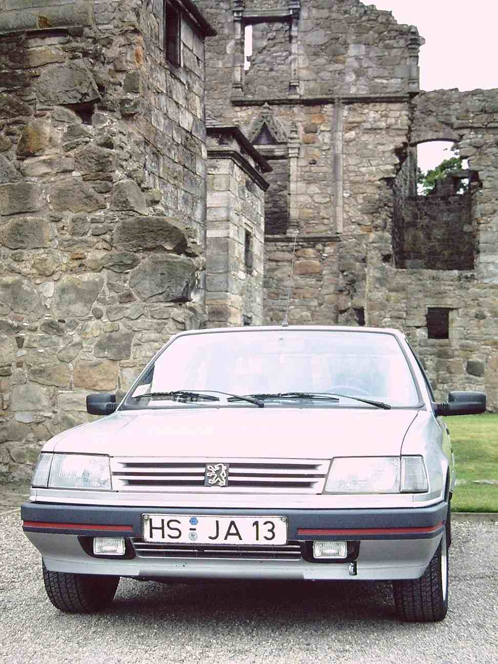 Peugeot 306 XRD, Series I